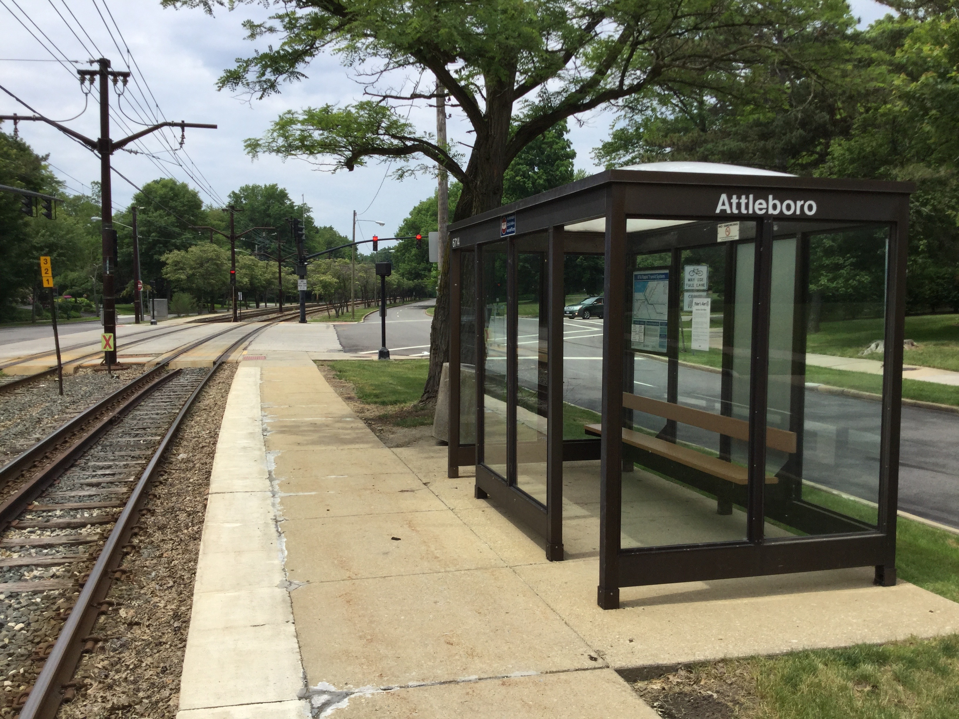 RTA station